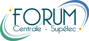 Logo Forum Centrale-Supélec